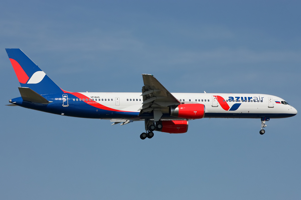 Azur Air Boeing 757-200 on finals into Antalya